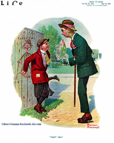 Norman Rockwell's Tain't You was the cover of the 10-May-1917 issue of Life Magazine. Read more